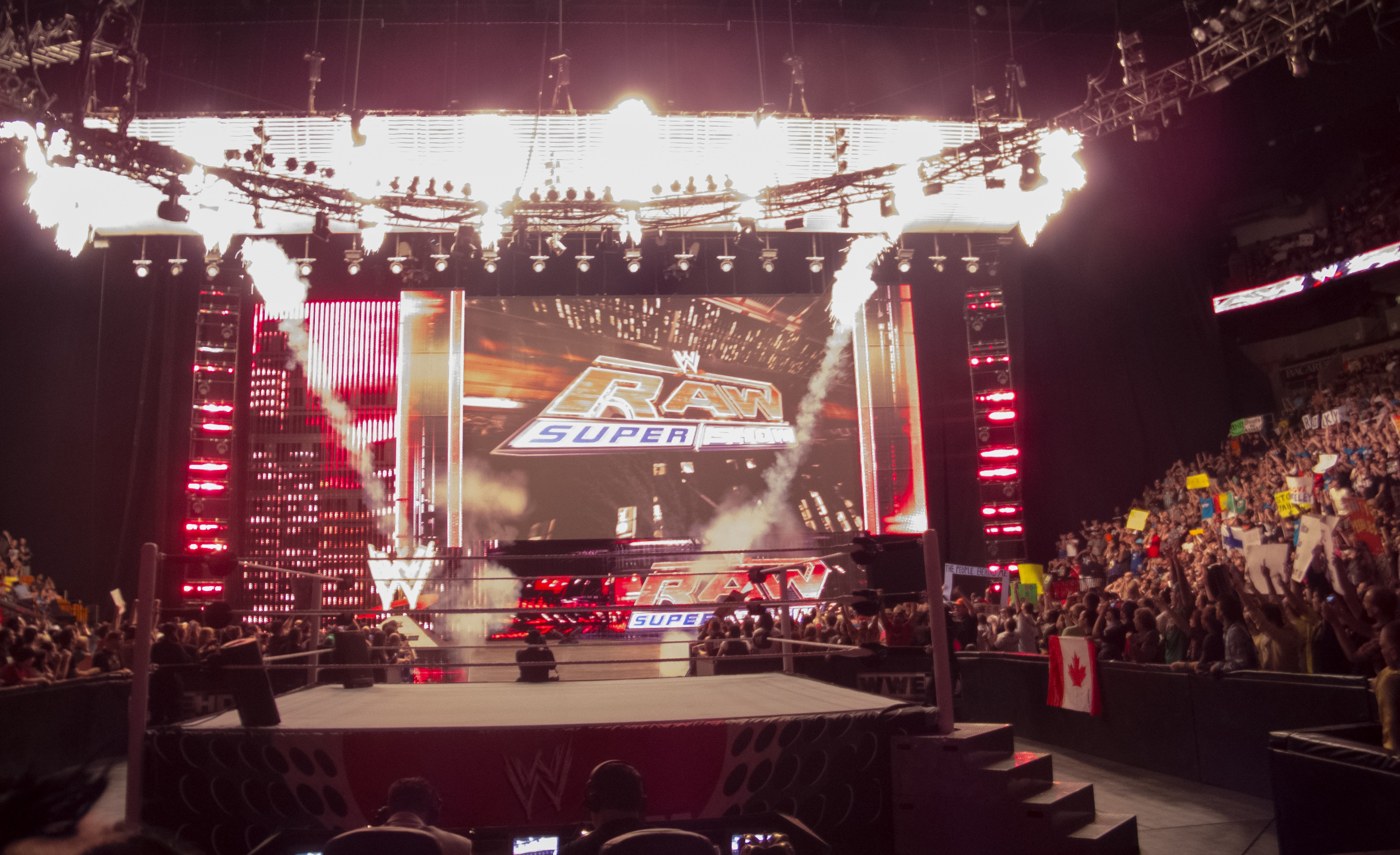 WWE Post-WrestleMania 28 RAW